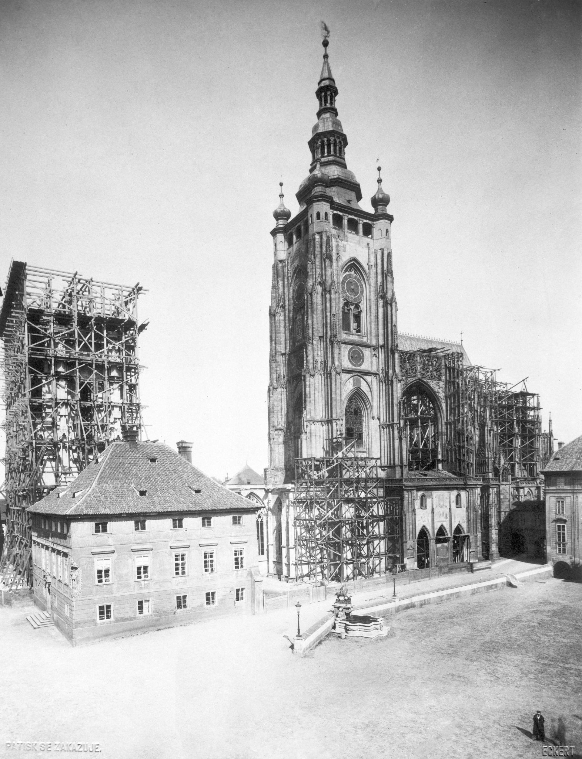 Prague Castle - St. Vitus Cathedral around 1887